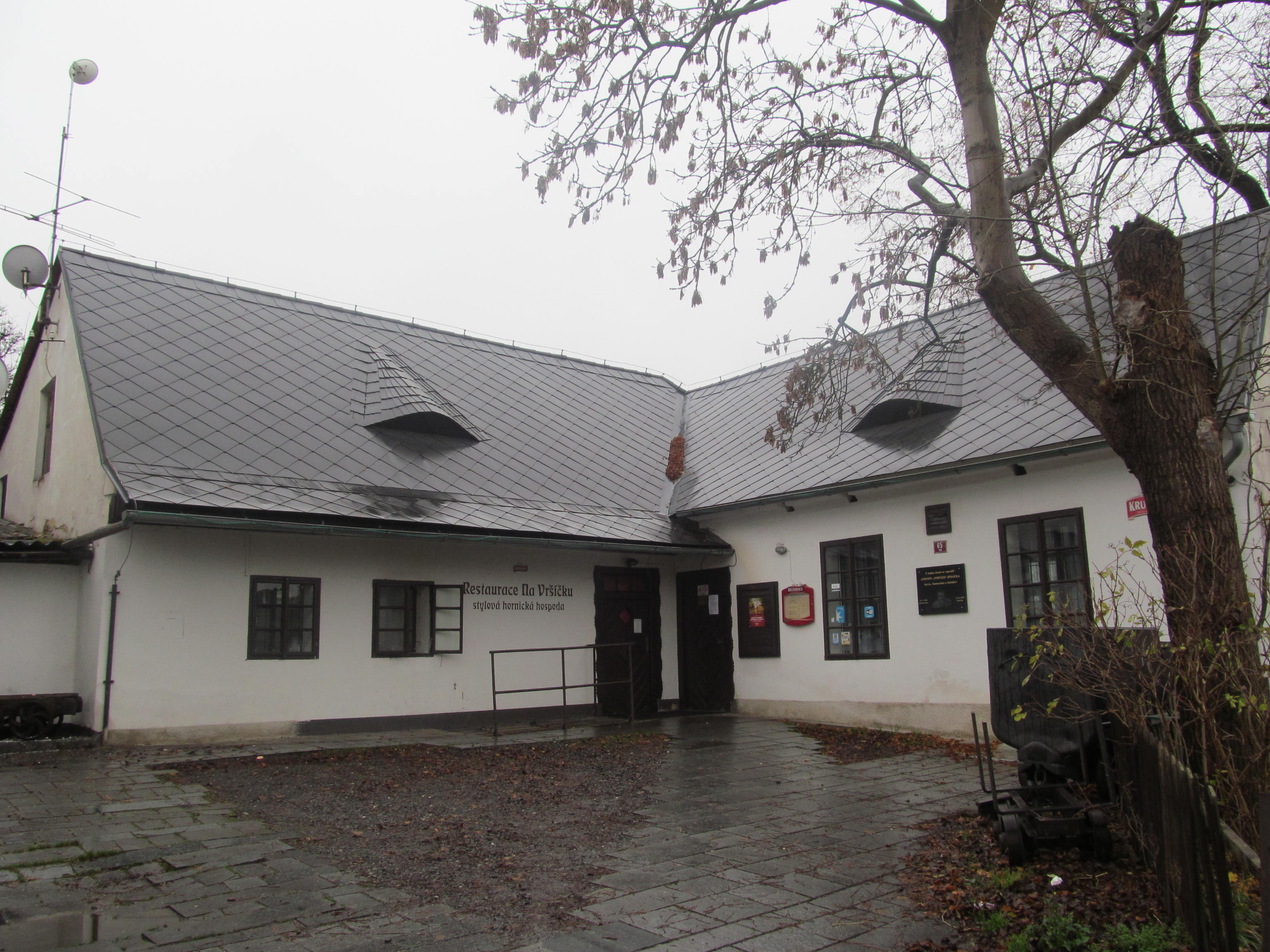 Birthplace of an actor Antonín Jedlička in Příbram